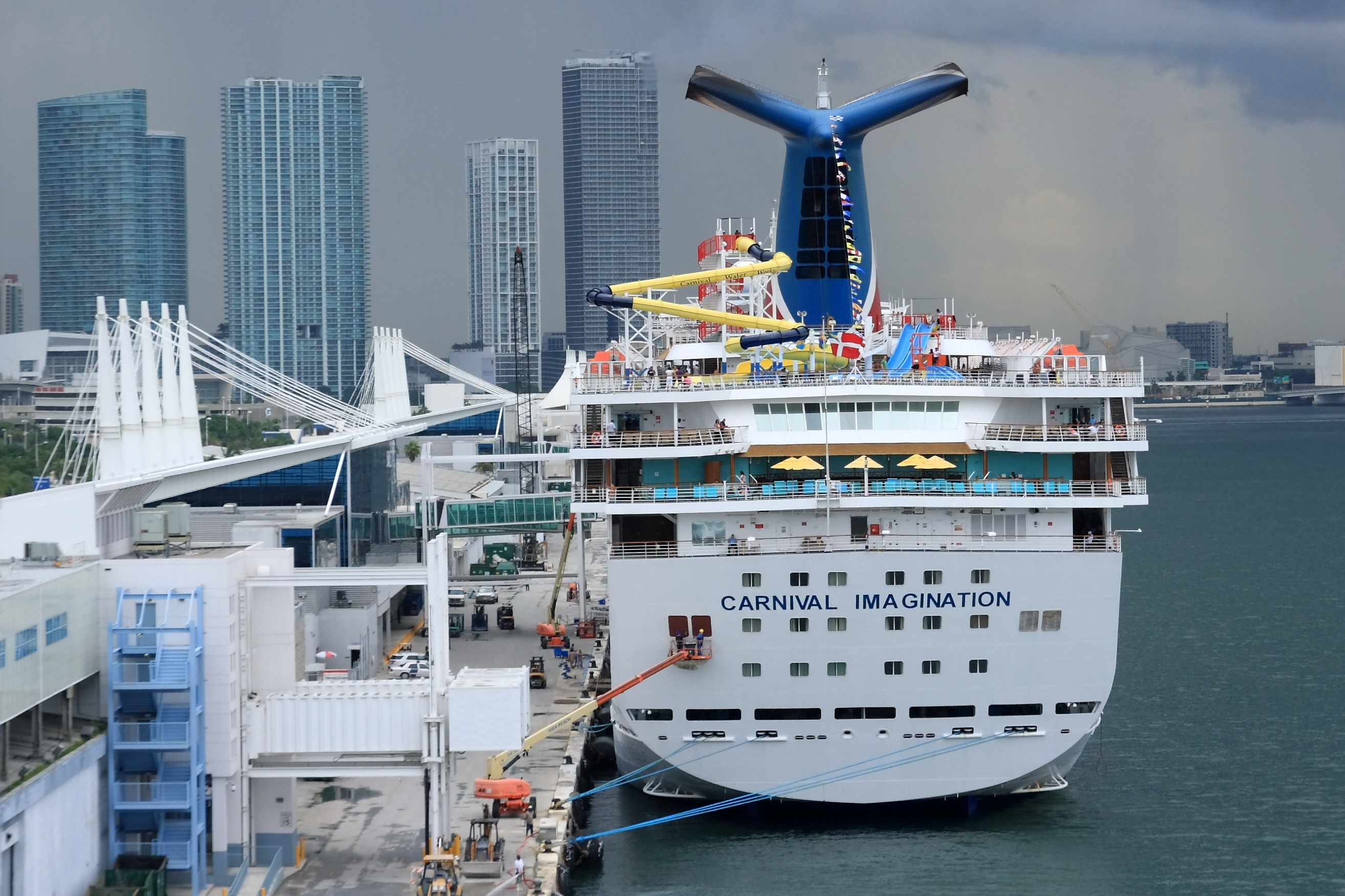 Wide panorama of Downtown Miami